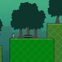 Screenshot of game by Nifflas. License is in HTML source code: from